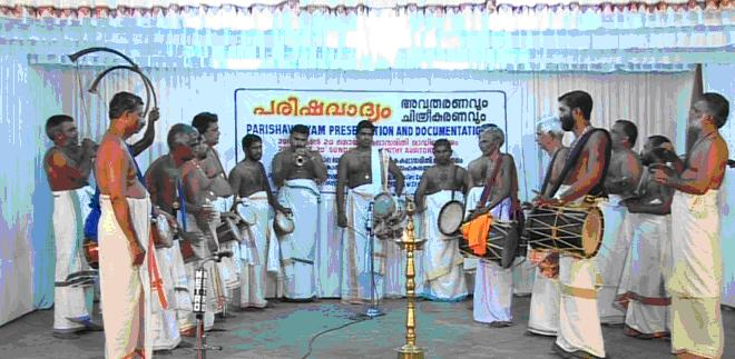 PARISHAVADYAM